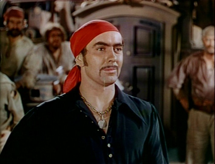 Tyrone Power in a screenshot from the trailer for the film The Black Swan.